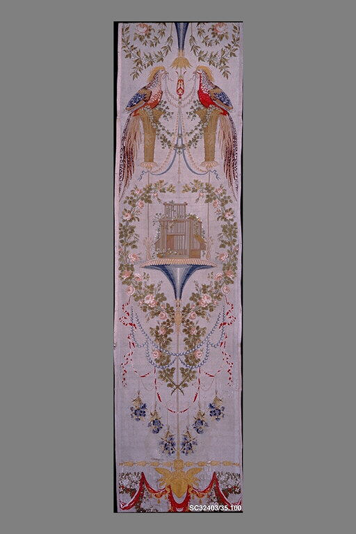 French, Lyons; Panel; Textiles-Woven